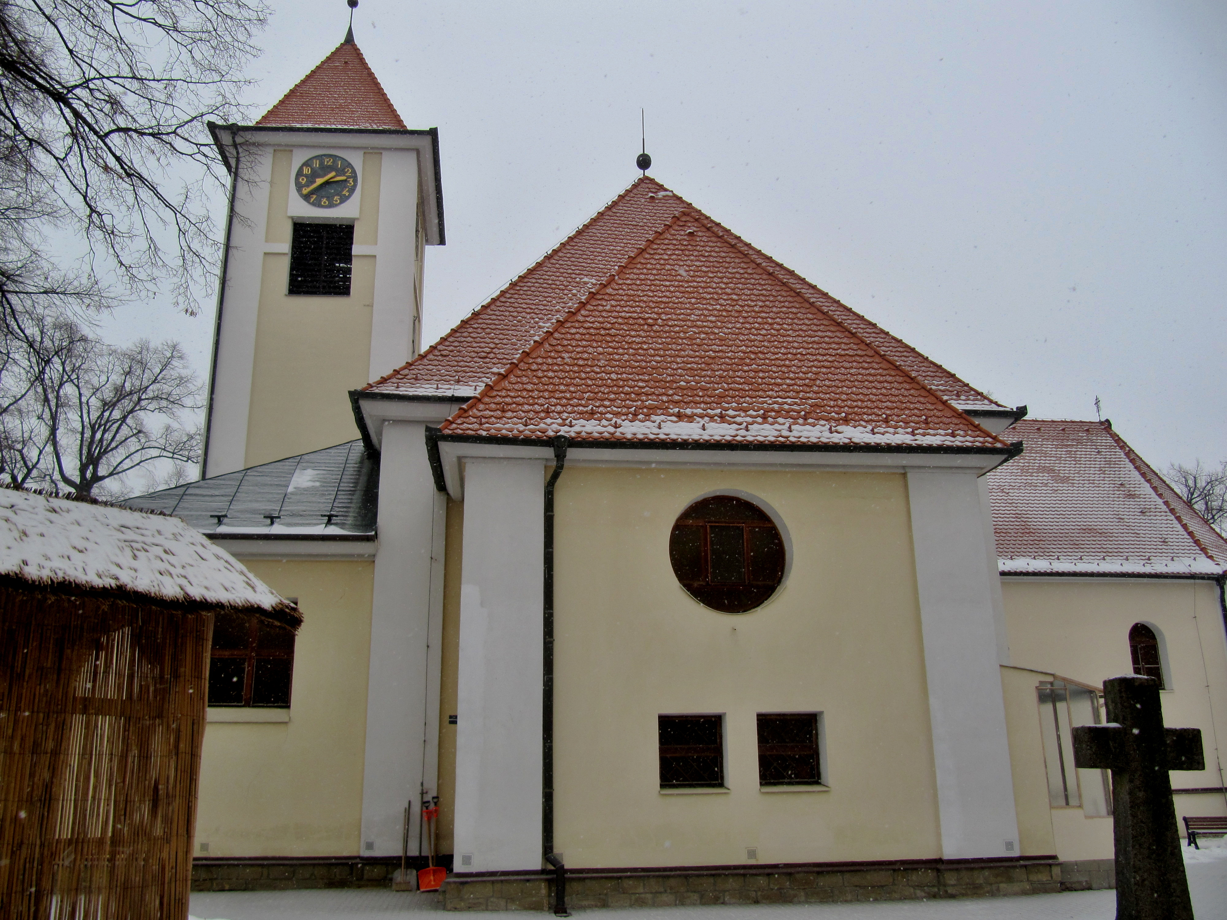 Vlčnov in Uherské Hradiště District, Czech Republic. Church of Saint James the Greater.